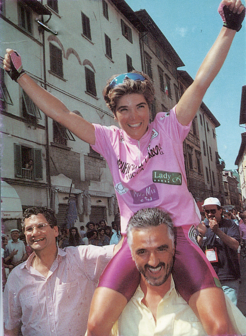 The Italian cyclist Michela Fanini with the pink jersey celebrating with her uncle Ivano Fanini after winning the 1994 Giro d'Italia for Women